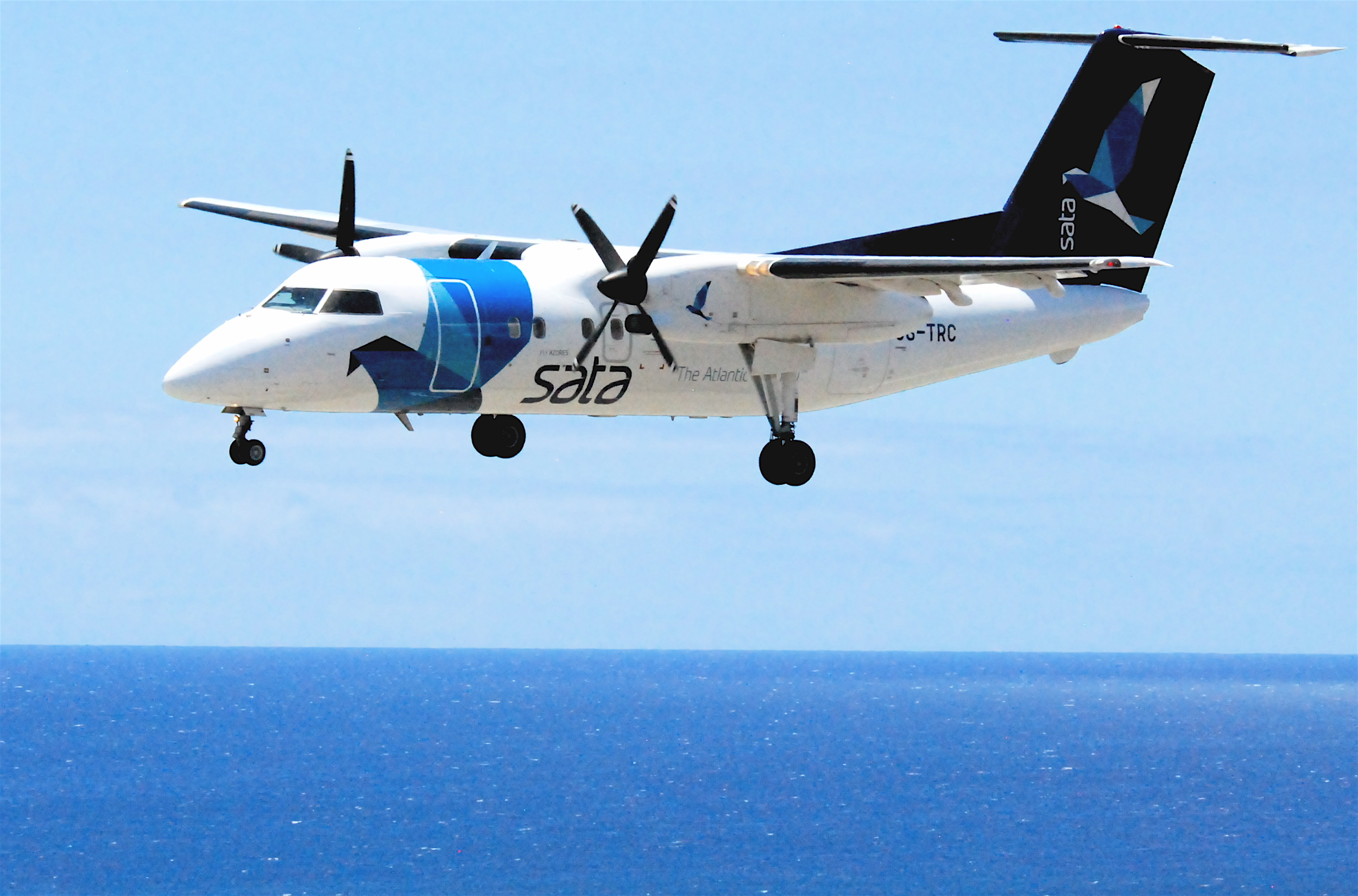 SATA Air Acores DHC-8-202Q Dash 8; CS-TRC@FNC;12.07.2011/607ad